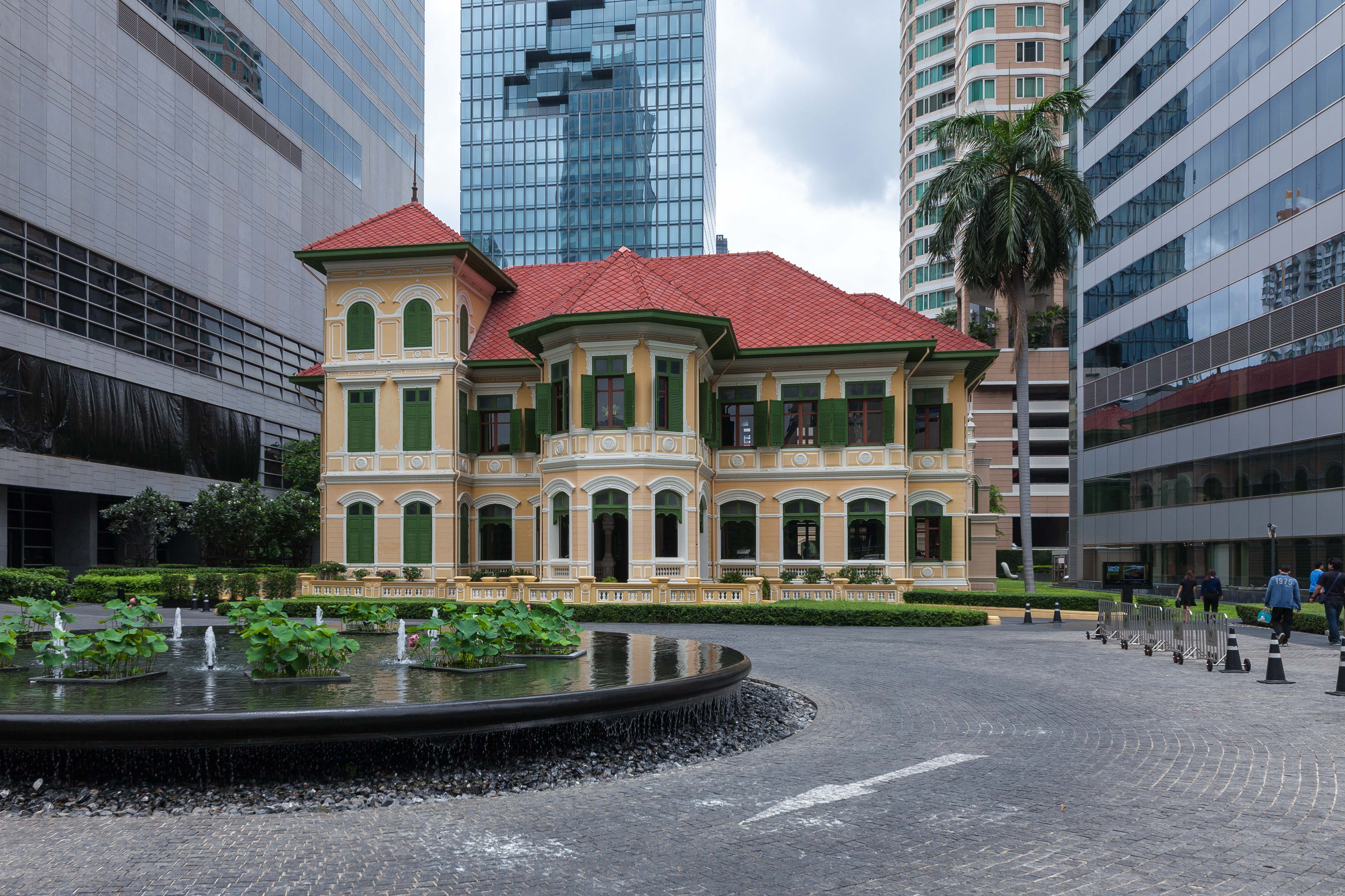 Baan Sathon (Sathon Mansion), a former Russian Embassy located at Sathon District, Bangkok.